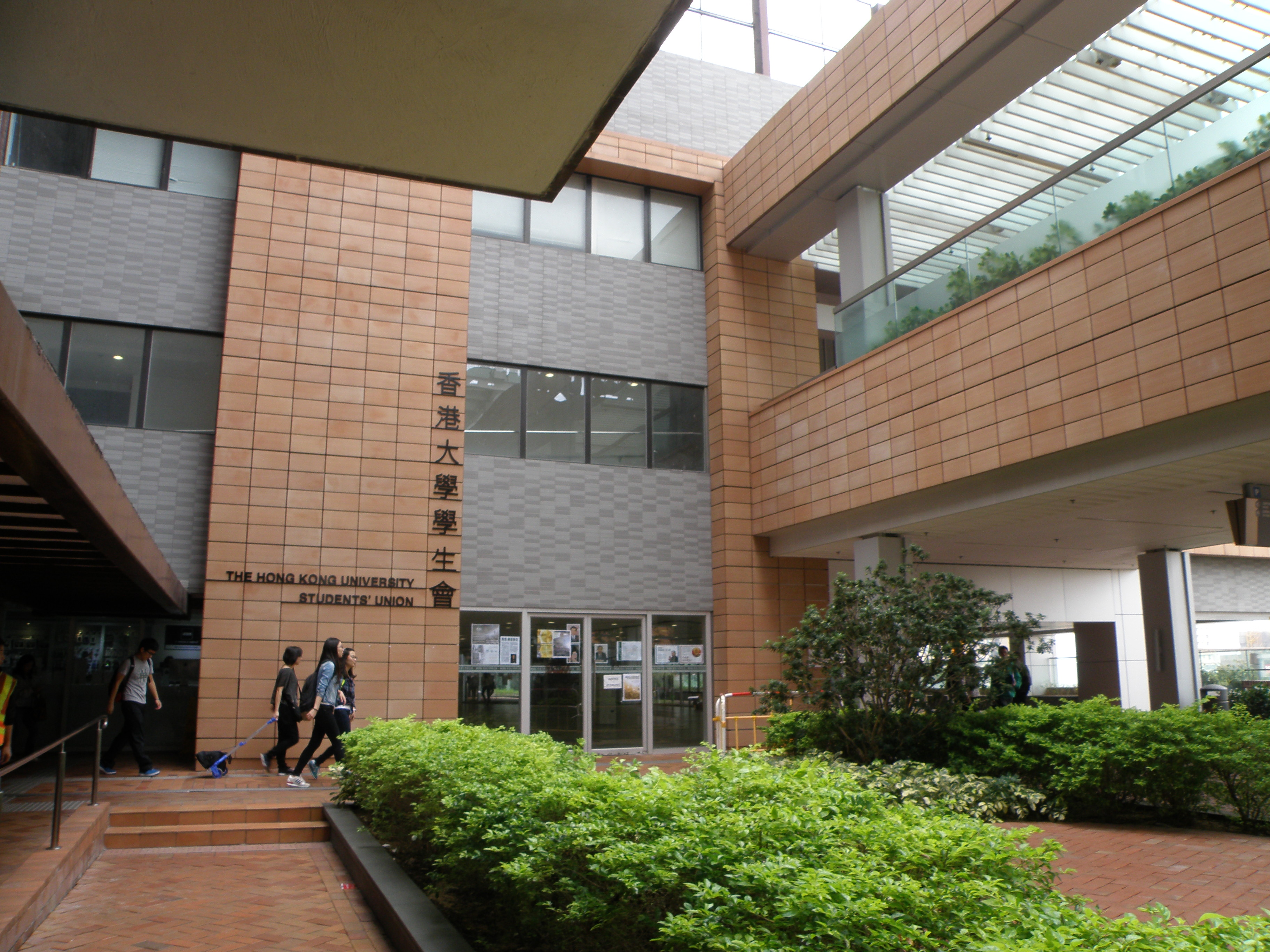 Hong Kong University Students' Union in Shek Tong Tsui, Hong Kong.